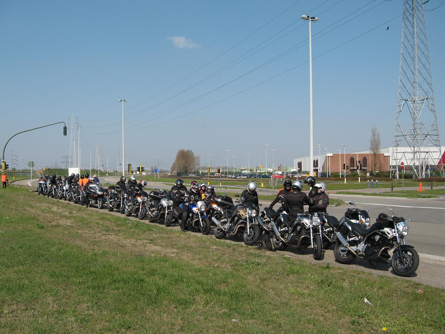 Bulldog motor cycle meeting